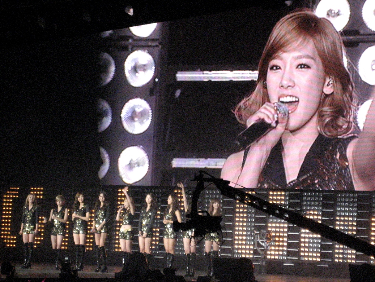 Girls' Generation (SNSD) intro at SMTown Live NY 10/23/11 Madison Square Garden, New York City